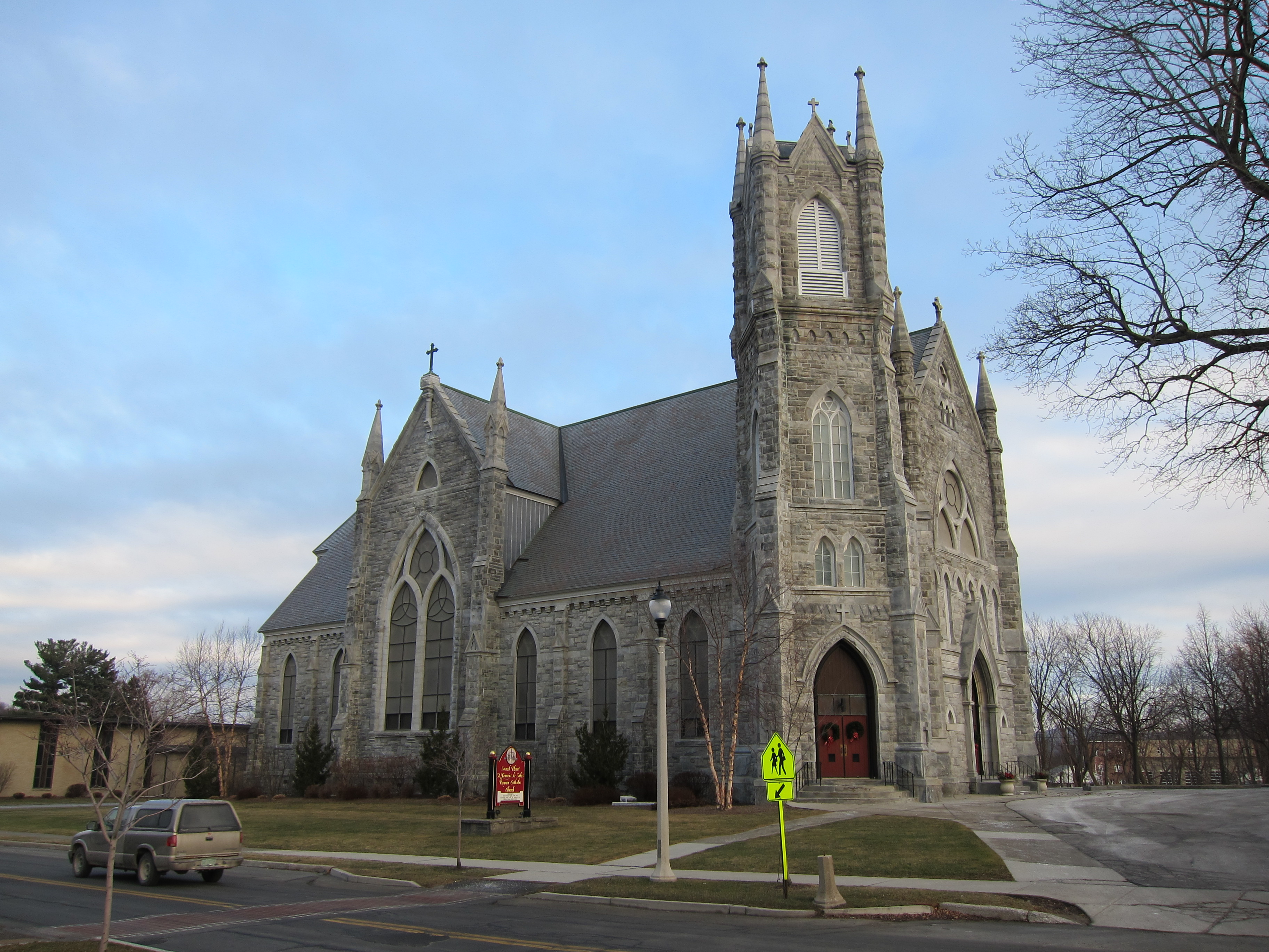 Sacred Heart St. Francis de Sales Church (Bennington, VT), exterior